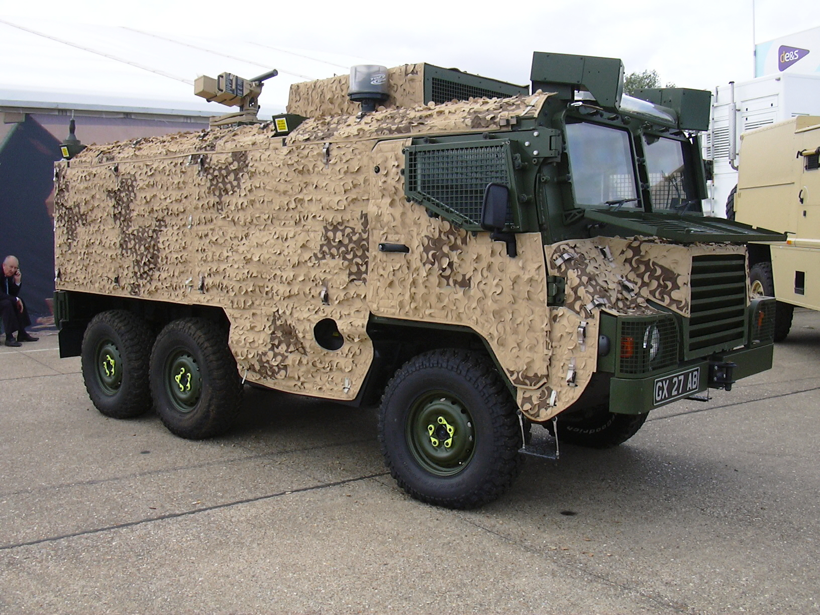 Pinzgauer Vector, UK MoD. Taken at DVD show, Millbrook.